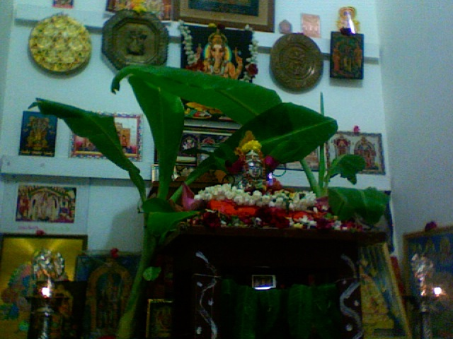 A typical decoration for the Goddess during Varalakshmi Viratham observation